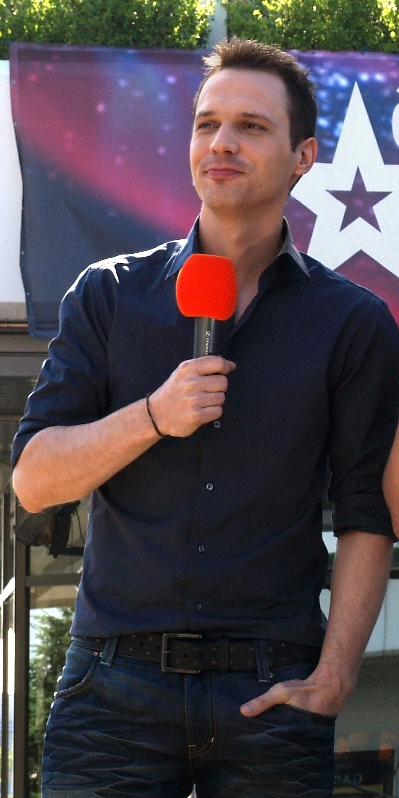 Casting for Czecho-Slovakia's Got Talent in Prague – host for Slovakia Martin “Pyco” Rausch